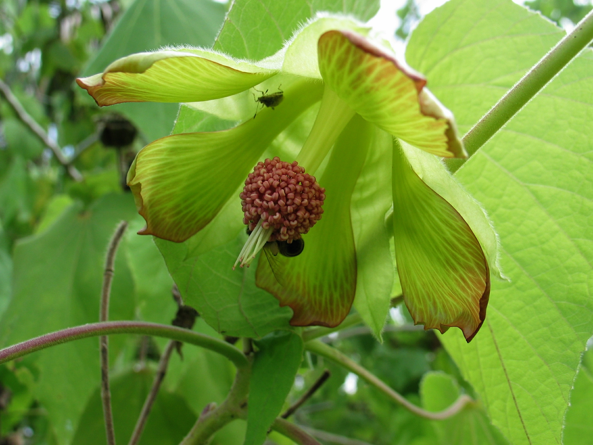 Green-flowered abutilon Malvaceae Endemic to the Hawaiian Islands (Waiʻanae Mountains, Oʻahu only) IUCN: Critically Endangered Hawaiʻi Island (Cultivated) NPH00005